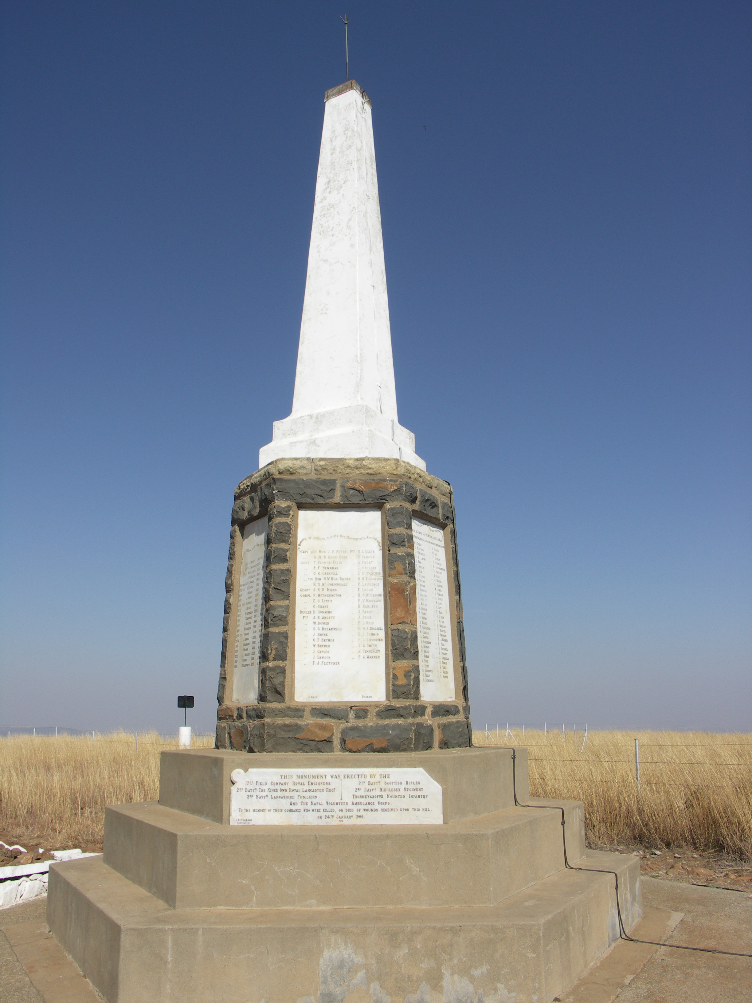 British Memorial at Spion Kop. Erected by the 17th Field Company Royal Engineers 2nd Battalion The King's Own Royal Lancaster Regiment 2nd Battalion Lancashire Fusiliers 2nd Battalion Scottish Riflemen 2nd Battalion Middlesex Regiment Natal Volunteer Ambulance Corps